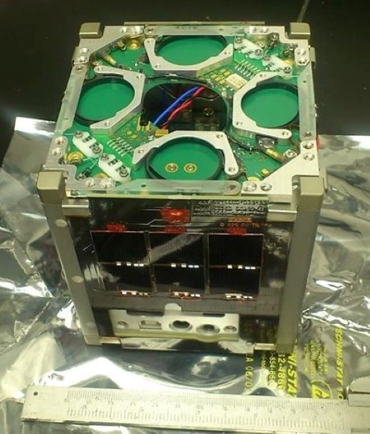 Duchifat 1 satellite